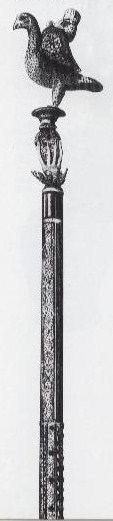 The sceptre of Dagobert belonging to the treasury of St-Denis; lost during the French Revolution. Plate III, Dom Bernard de Montfaucon, Les monuments de la monarchie françoise, Paris, 1729.